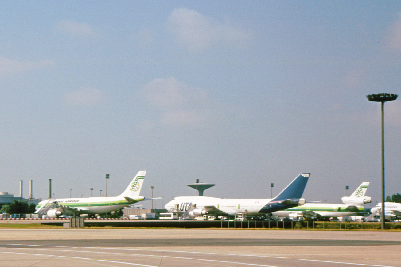 Planes at the Paris Charles de Gaulle airport in 1991. Pictured: Air Afrique and UTA.